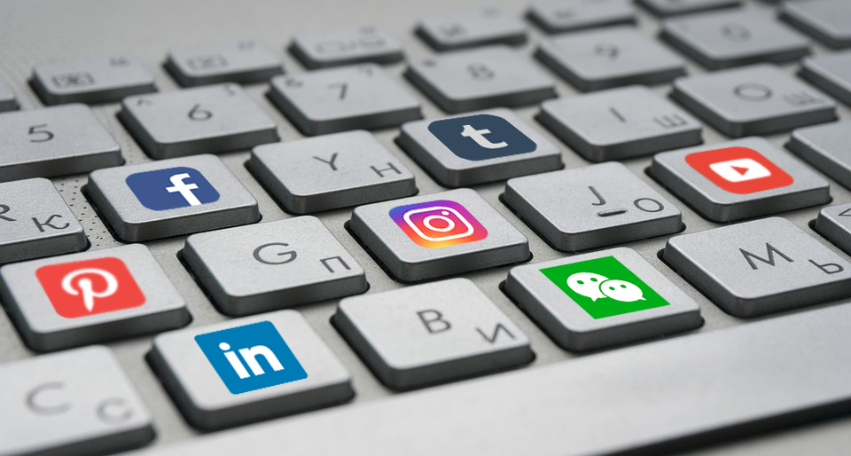 Social Media Marketing Strategy. Please provide credit by linking back to